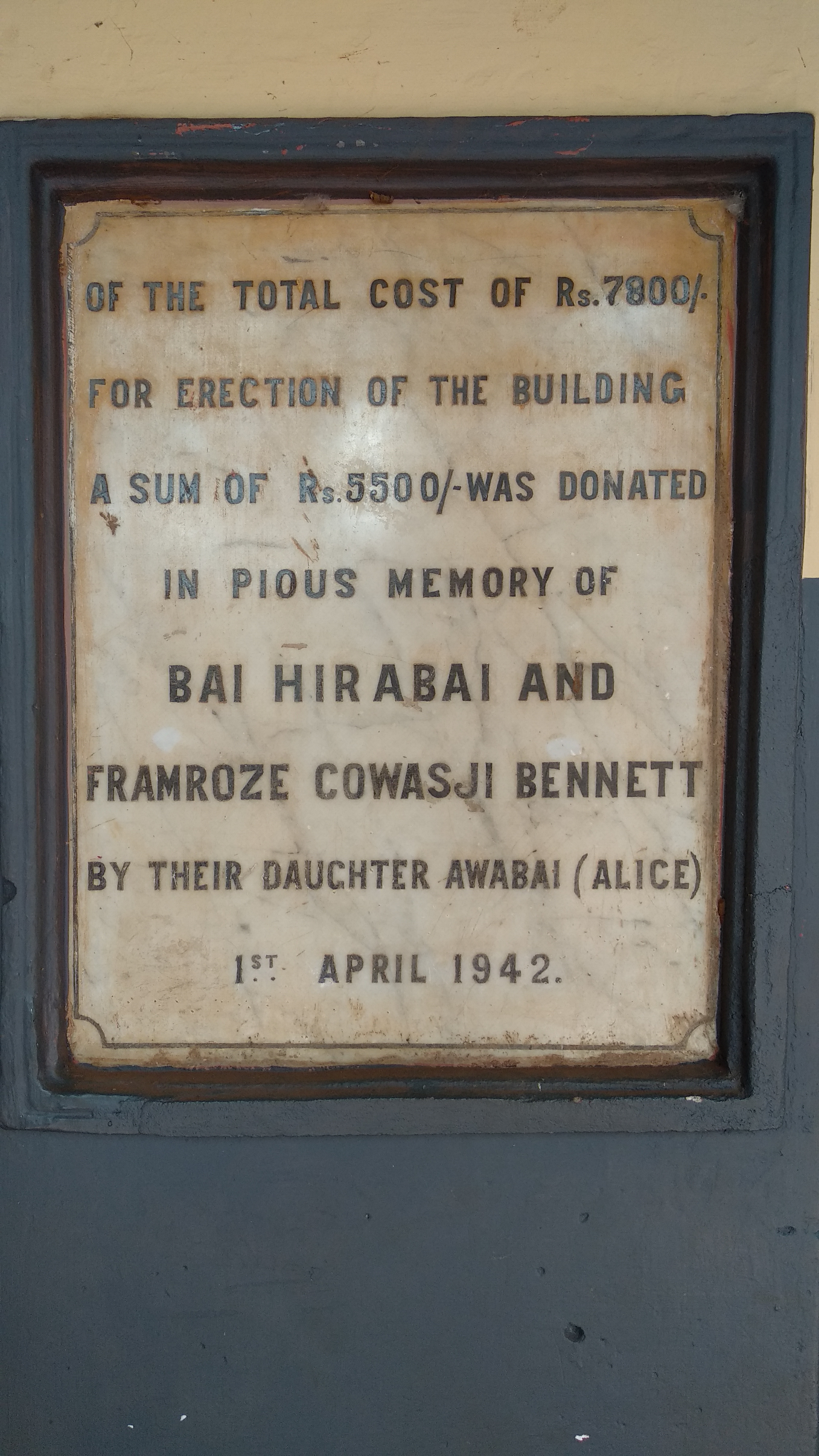 SRMGHSS RAMNAGAR FOUNTATION STONE